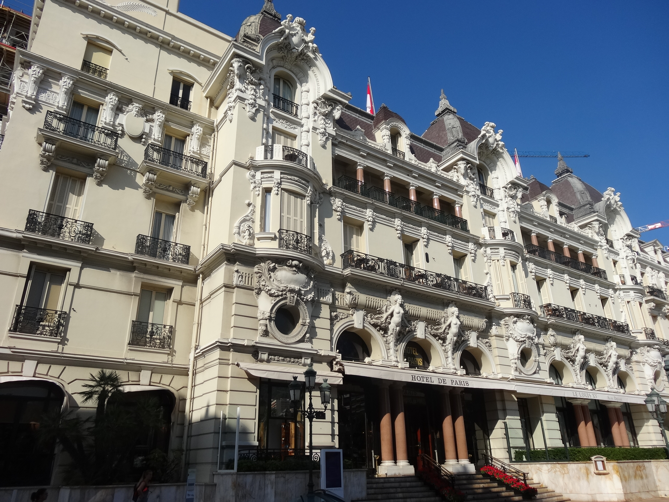 Hotel de Paris, Monaco. August 2016.